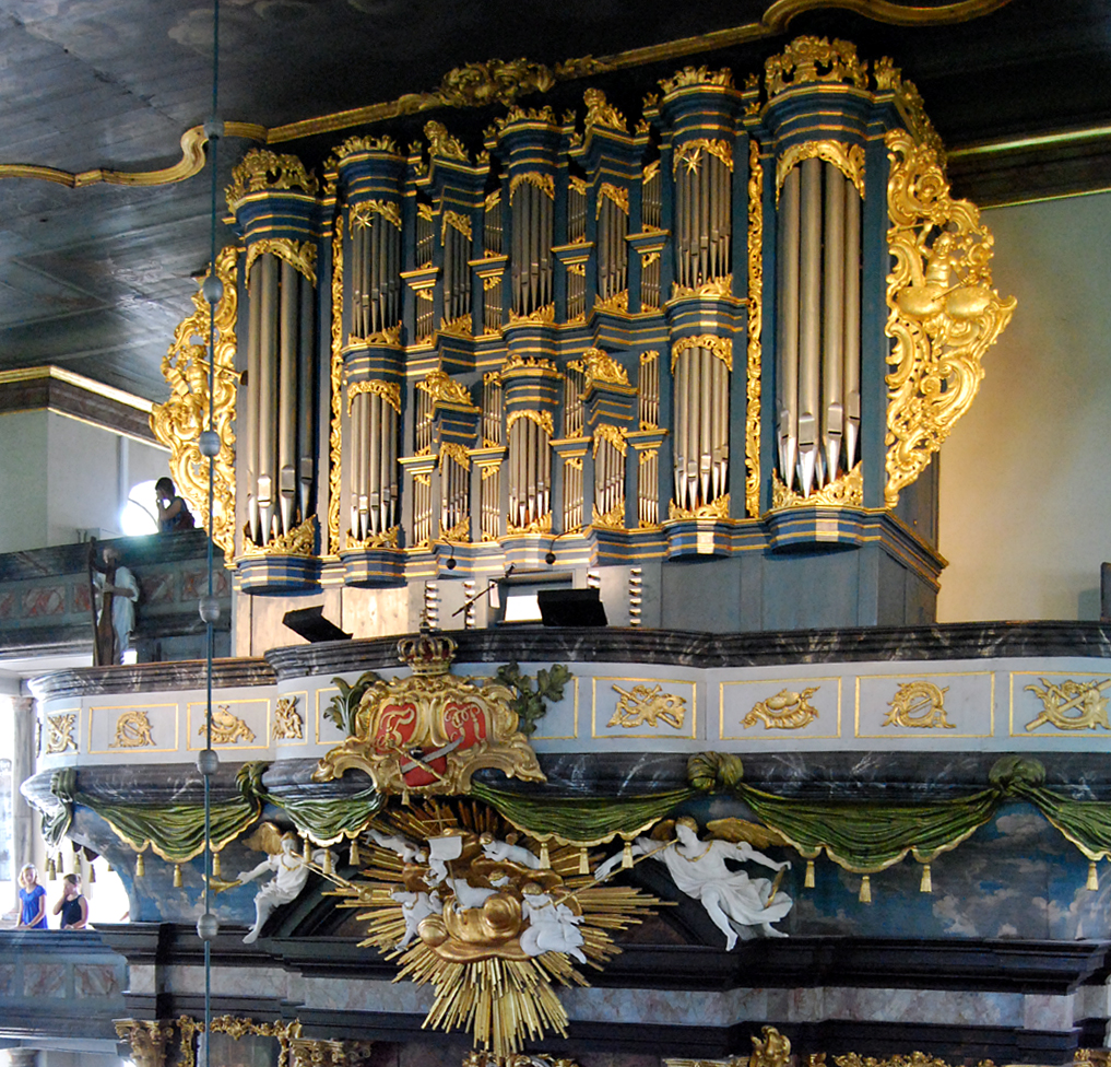 Baroque organ with king Frederik V of Denmark and Norway and queen Juliane Marie's monograms, Kongsberg church, Norway. Built 1765 by Gottfried Heinrich Gloger (1710-1779). Rebuilt 1933.